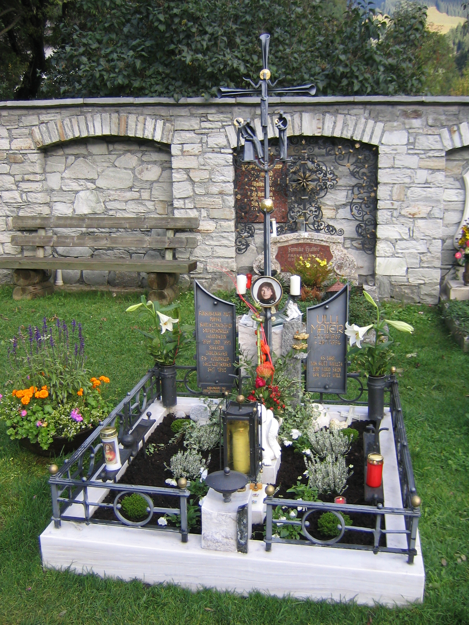 Grave of Ulrike Maier in Rauris, Salzburg (state)